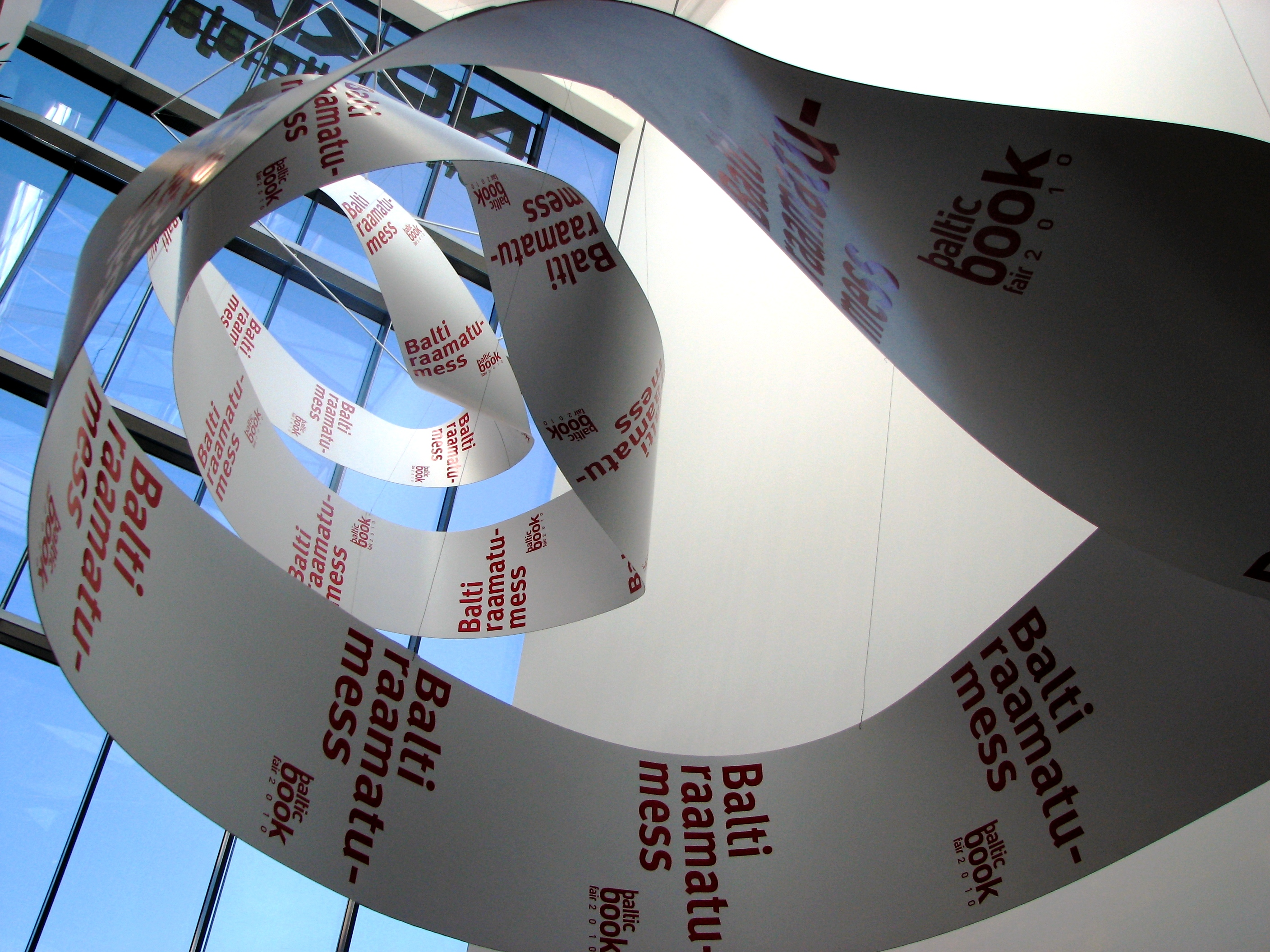 Baltic Book Fair 2010